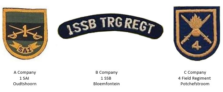 SADF era 1 SAI companies circa 1950s